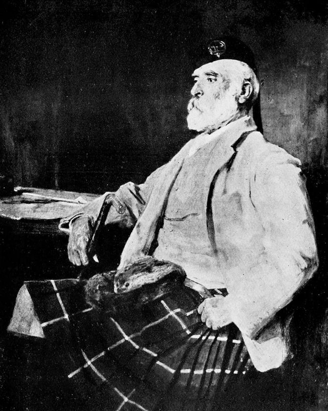 Portrait of Norman Magnus MacLeod of MacLeod (1839–1929). The image is supposedly a photo (or an illustration) of a painting (the caption reads "From a painting by Sir Geo. Reid, P.R.S.A.").